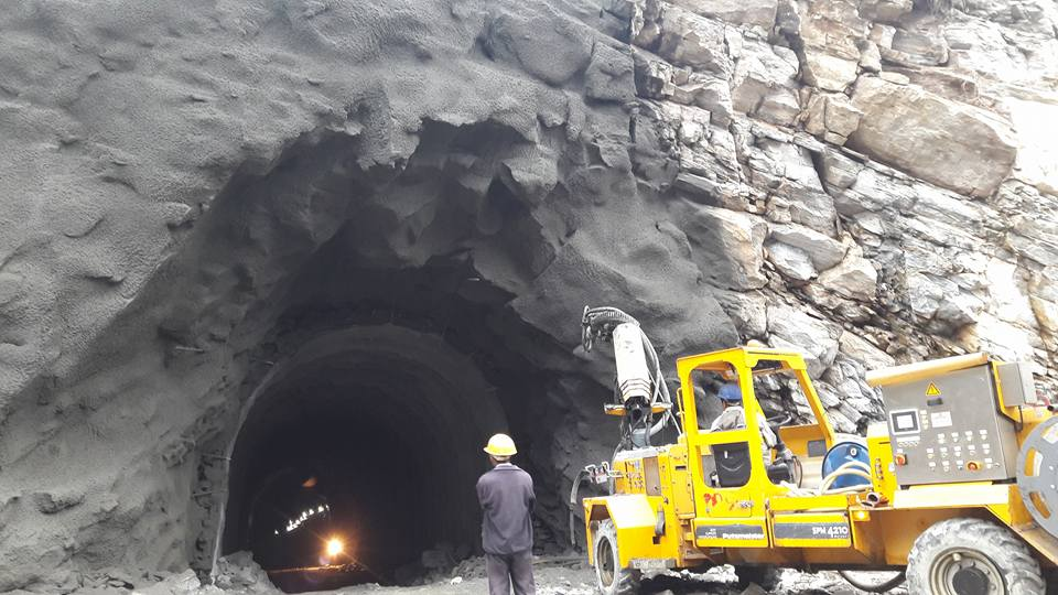 Access tunnel to Dam site of Upper Tamakoshi Hydroelectric Project under development by Govenment of Nepal, Ministry of Energy